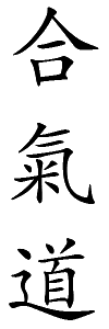 Aikido kanji with transparent background. Based on .